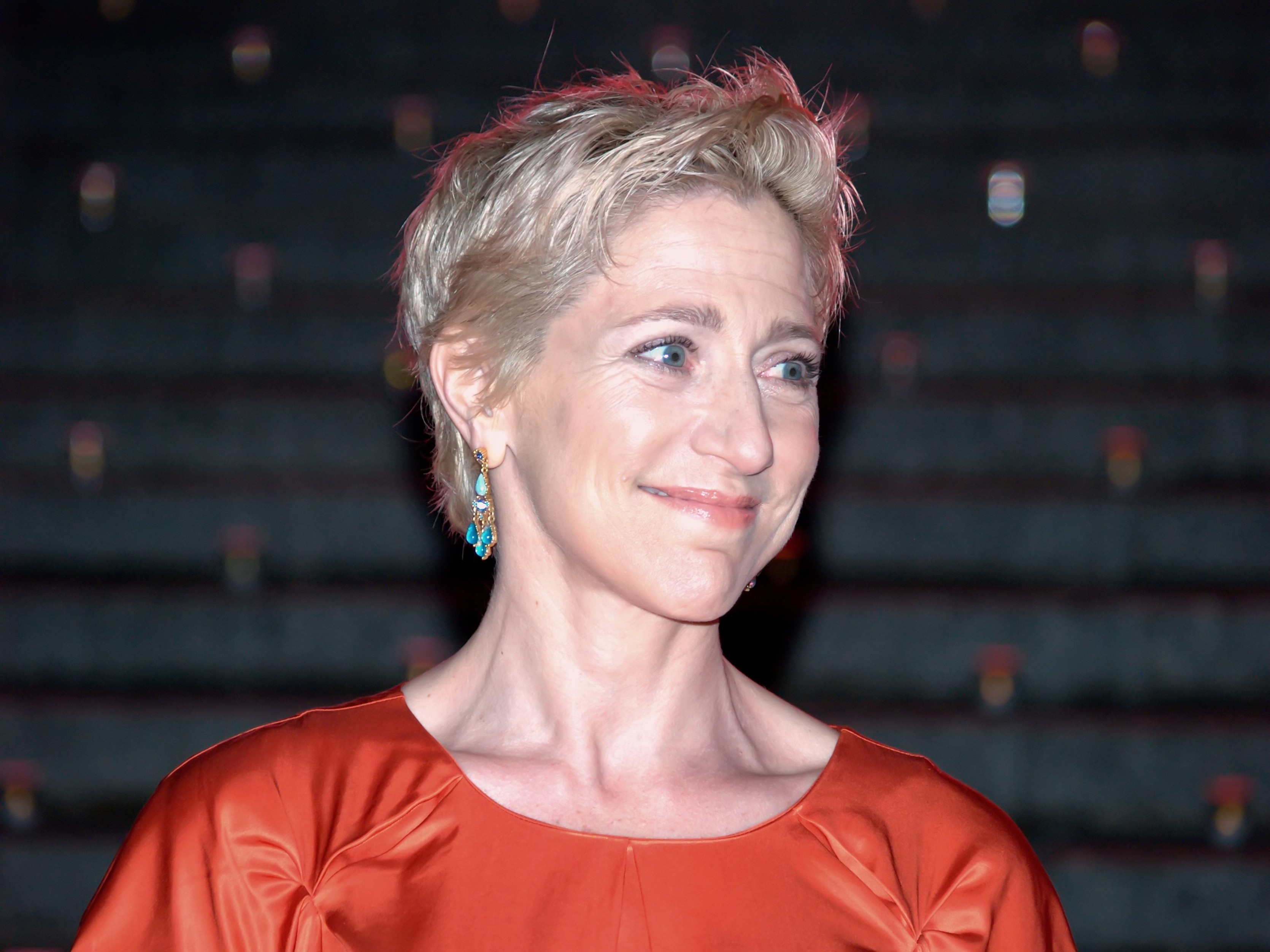 Edie Falco at the Vanity Fair kickoff part for the 2009 Tribeca Film Festival.